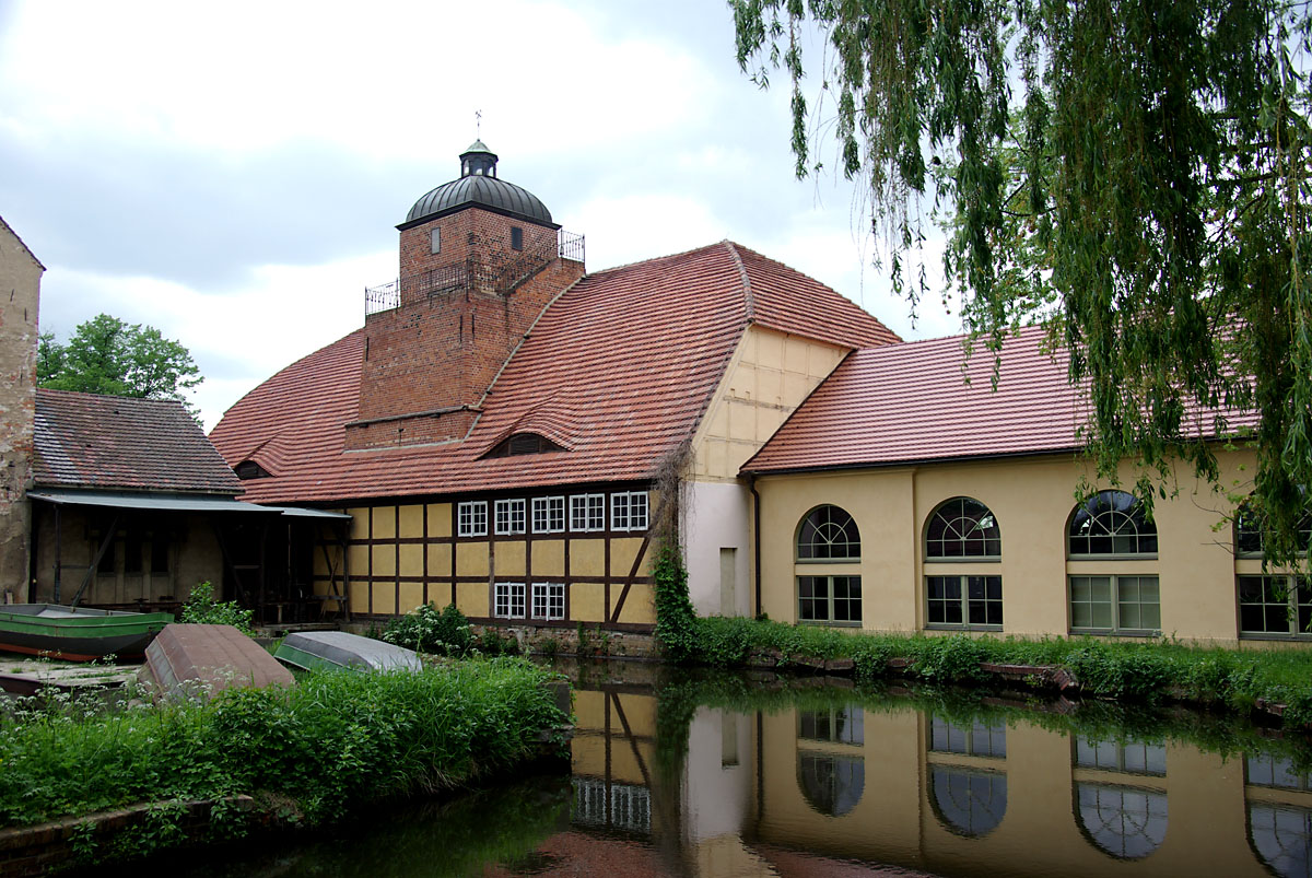 Old smeltery, Peitz, Brandenburg, Germany